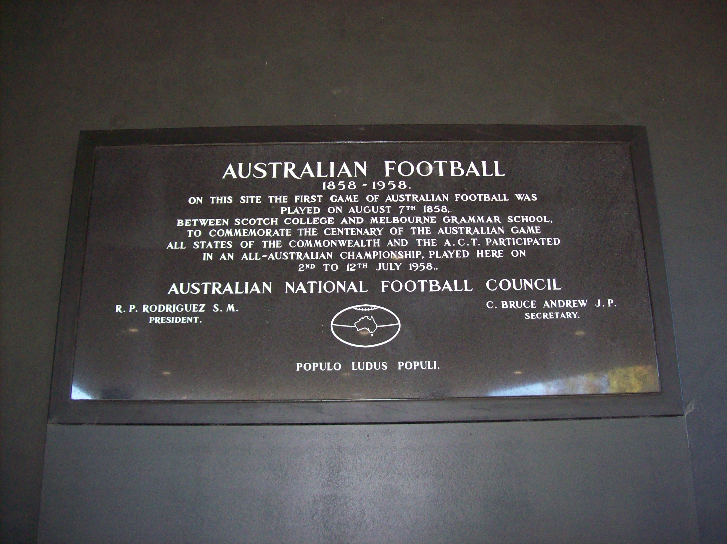 The stone placed at the MCG in commemoration of the 1958 carnival. Photograph taken in 2014.